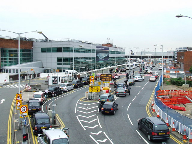 Heathrow Terminal 2. Viewed from the footbridge at Queens Building 581458.